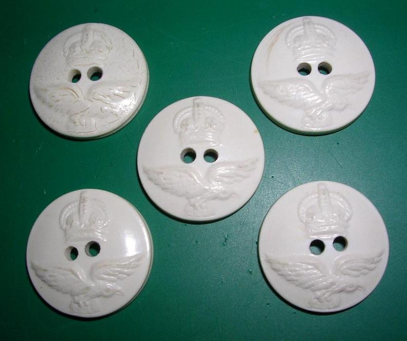 Five white galalith/casein pre-1953 RAAF buttons